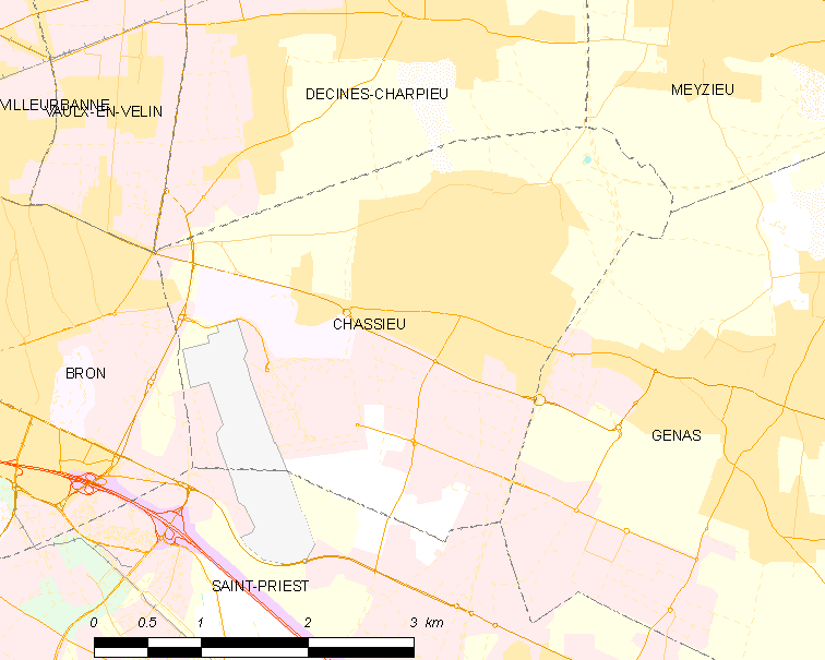 Map of French municipality